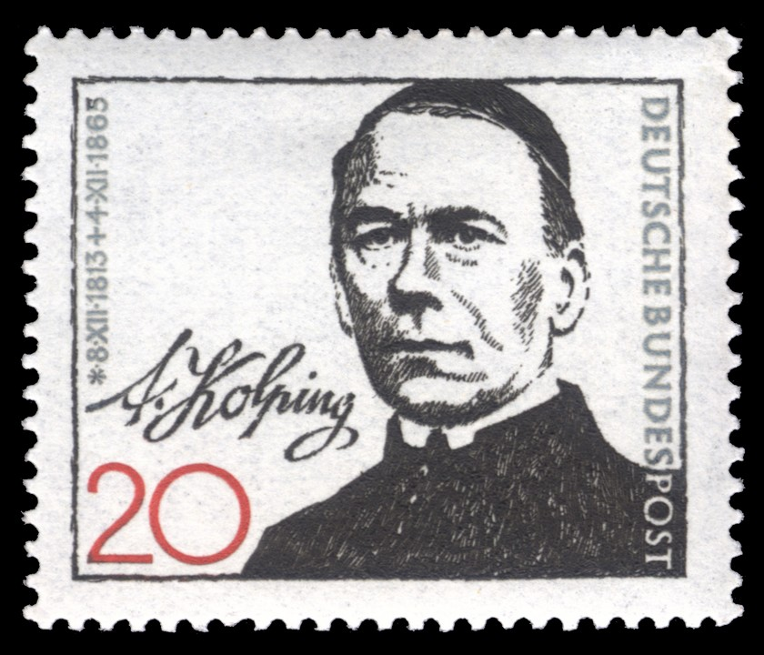 Adolph Kolping